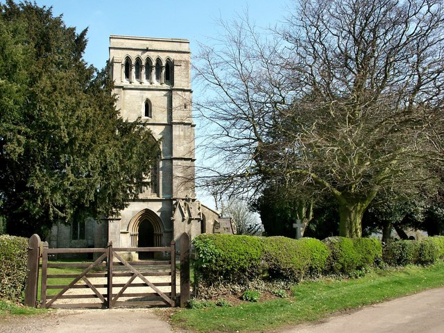 St Helen, East Keal The church of St Helen at East Keal, like that of St Helen at West Keal, stands on the very southern edge of the Wolds. It was almost entirely rebuilt in 1854 leaving just the south arcade, 13th-century and the north arcade, 14th-century. The octagonal 14th-century font has carvings flowers, leaves, grotesque heads and a bare backside! In the south aisle, there is a small Elizabethan tablet inscribed ‘Susanna Kirkman’, which shows a seated figure, elbow resting on a skull with an extinguished torch in her other hand. There is also a bust of Peter Short who died in 1681.